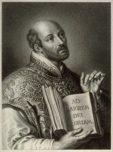 Ignatius of Loyola (1491-1556)